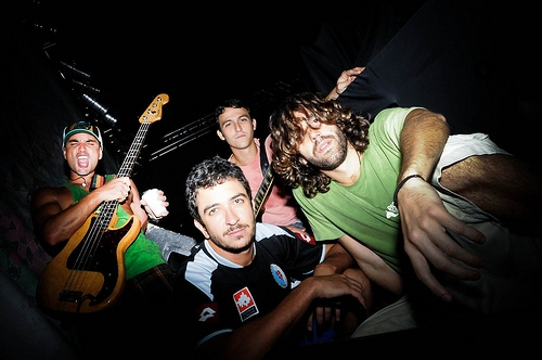 Integrantes do Forfun